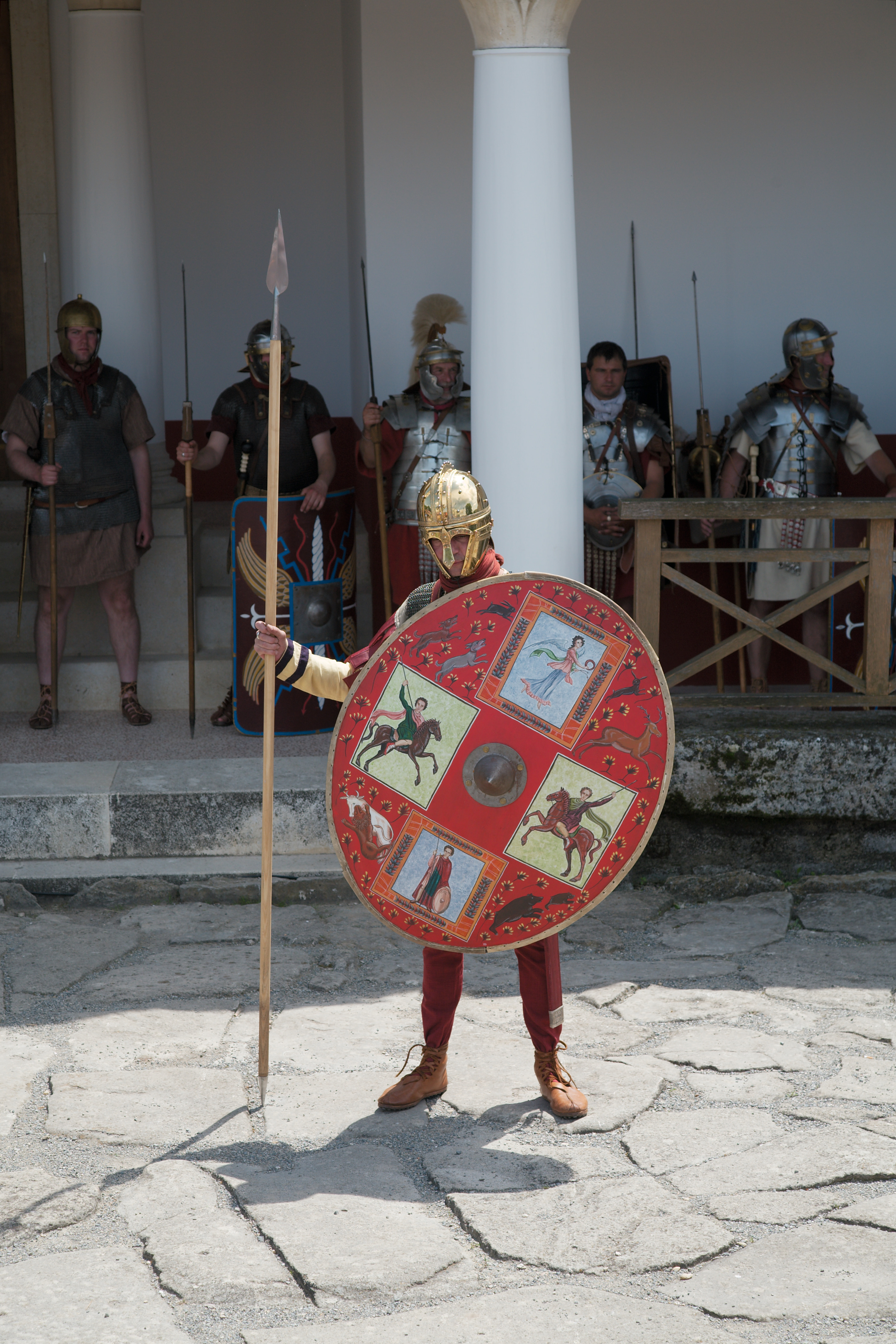 Roman legionaire 4. century. Reenactment of [1]